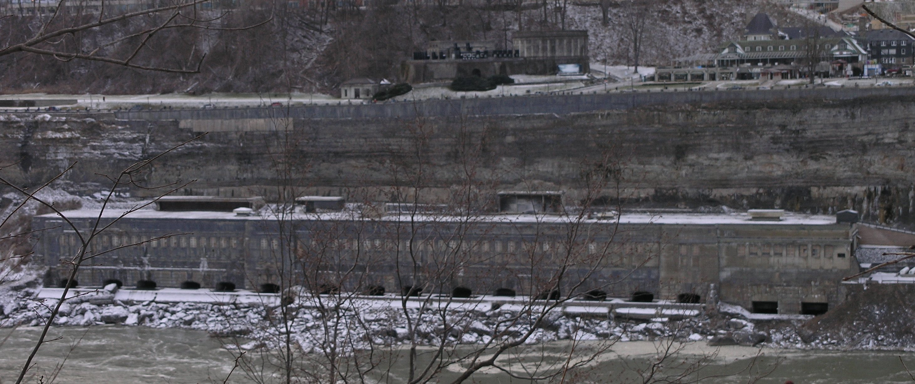 Taken by Daniel Mayer in late February 2006.